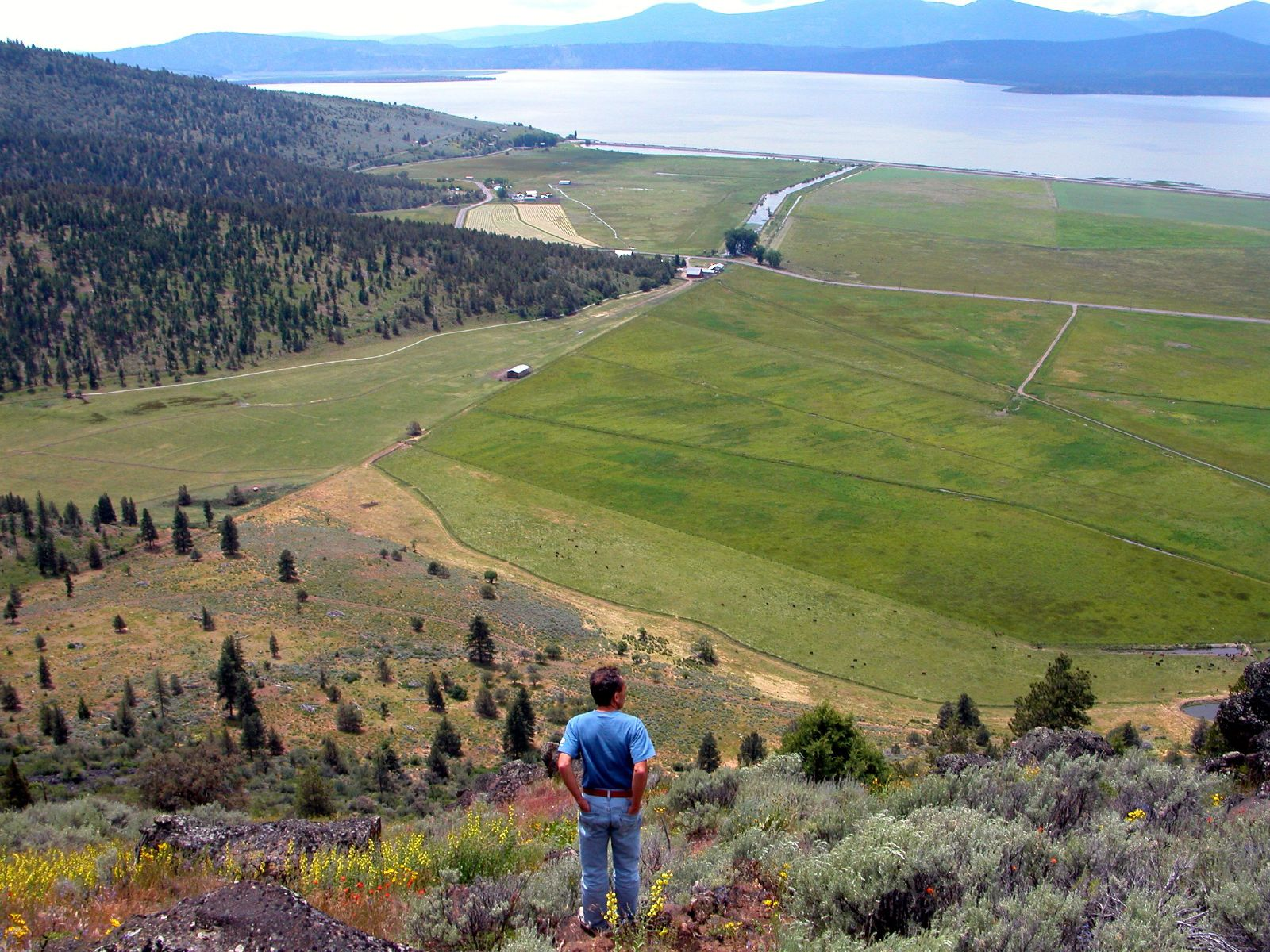 Klamath County, Oregon. Note: Klamath Lake can be seen in the background. This location is approximately 7 miles (11 km) north of the northernmost extent of Klamath Falls.